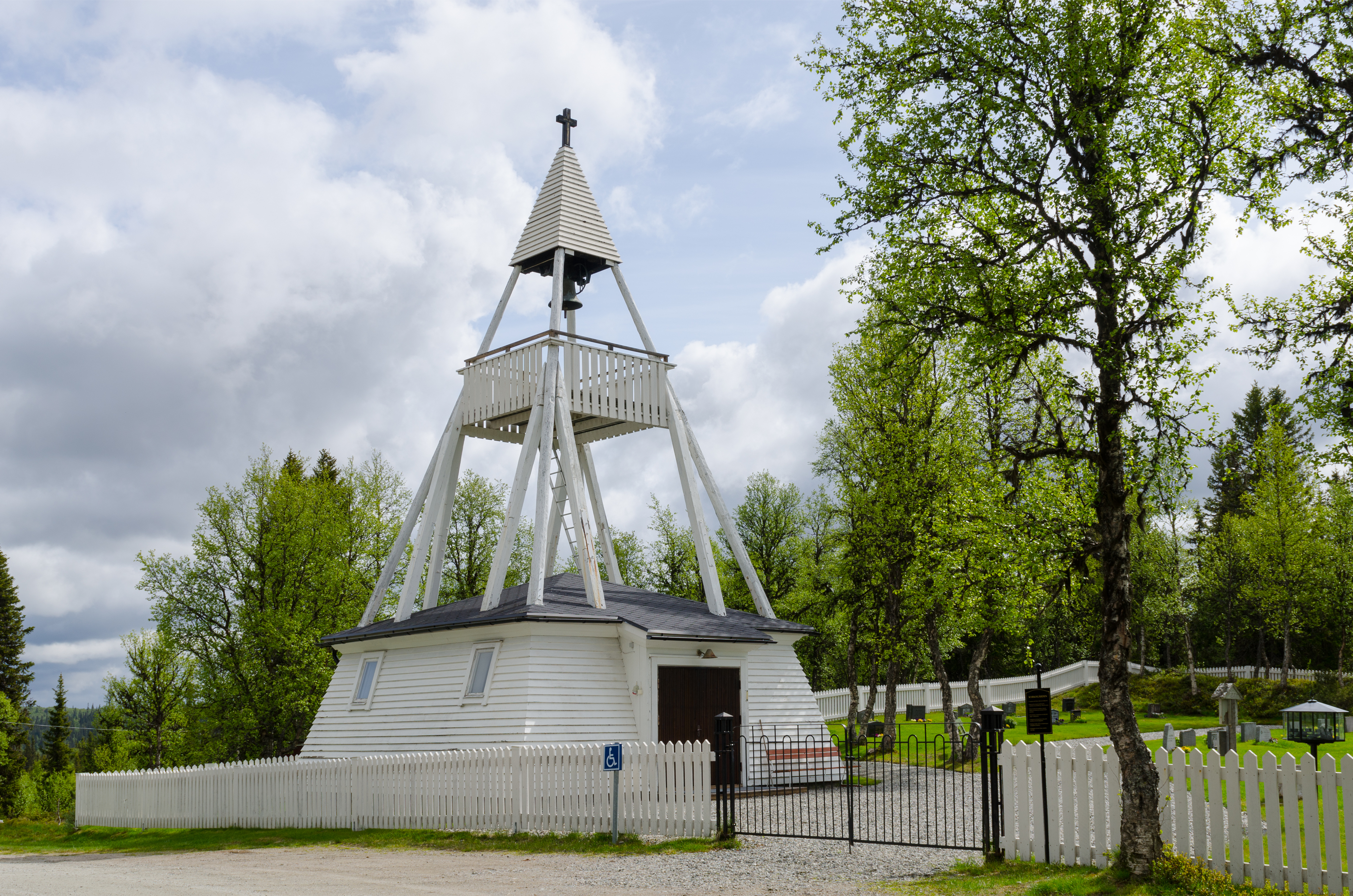 Högvålen chapel (swedish: Högvålens kapell), Högvålen, Härjedalen Municipality, Jämtland County, Sweden. At 835 metres (2738 feet) above sea level, Högvålen is Sweden's highest continuously inhabited village.